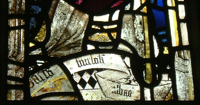 Legend under figure of St Barlock in window at Norbury church